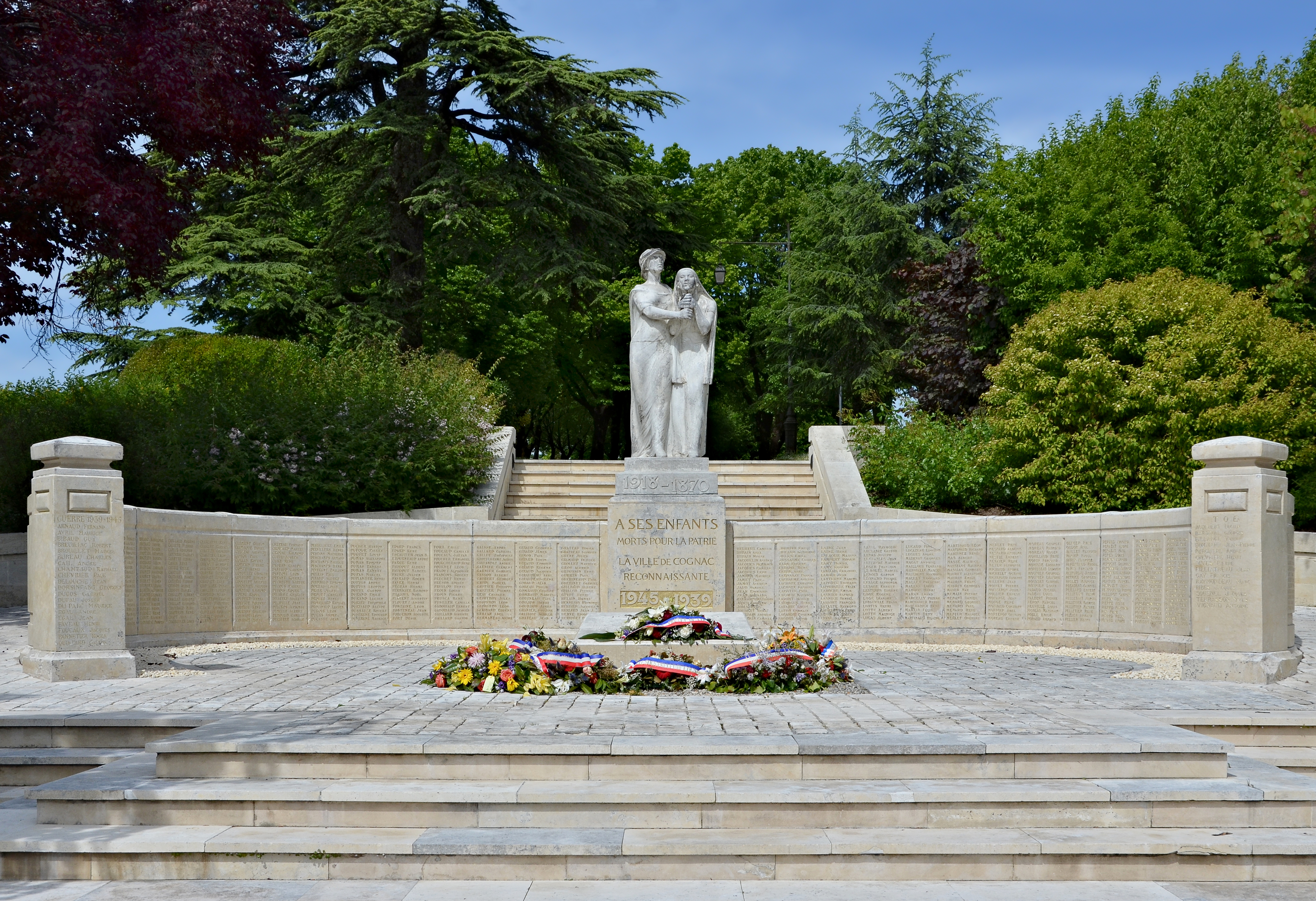 War monument, Cognac, Charente, France.